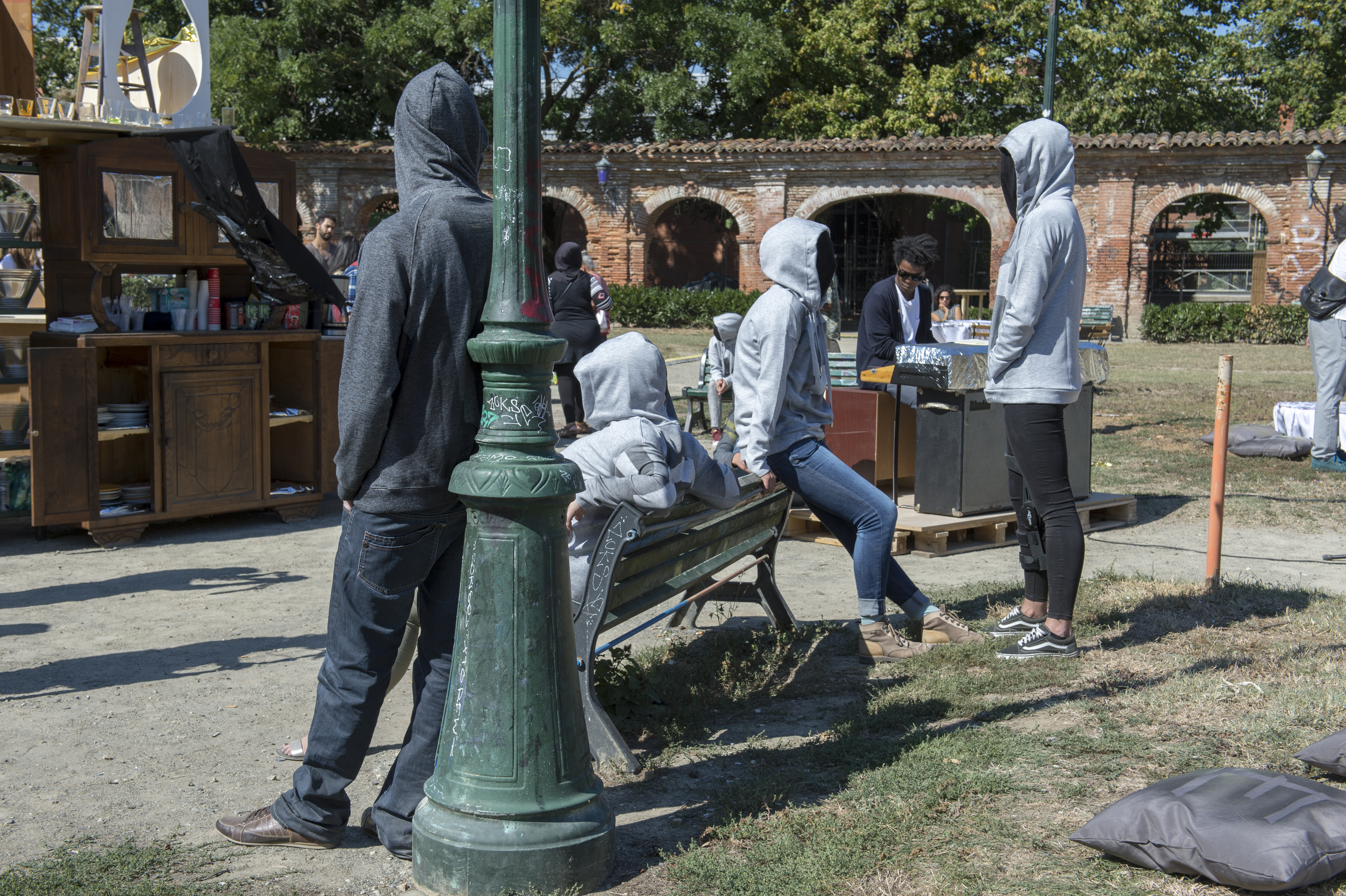 Tide by Side under the artistic direction of Claire Tancons with Mohamed Bourouissa and Christophe Chassol. Photo Franck Alix